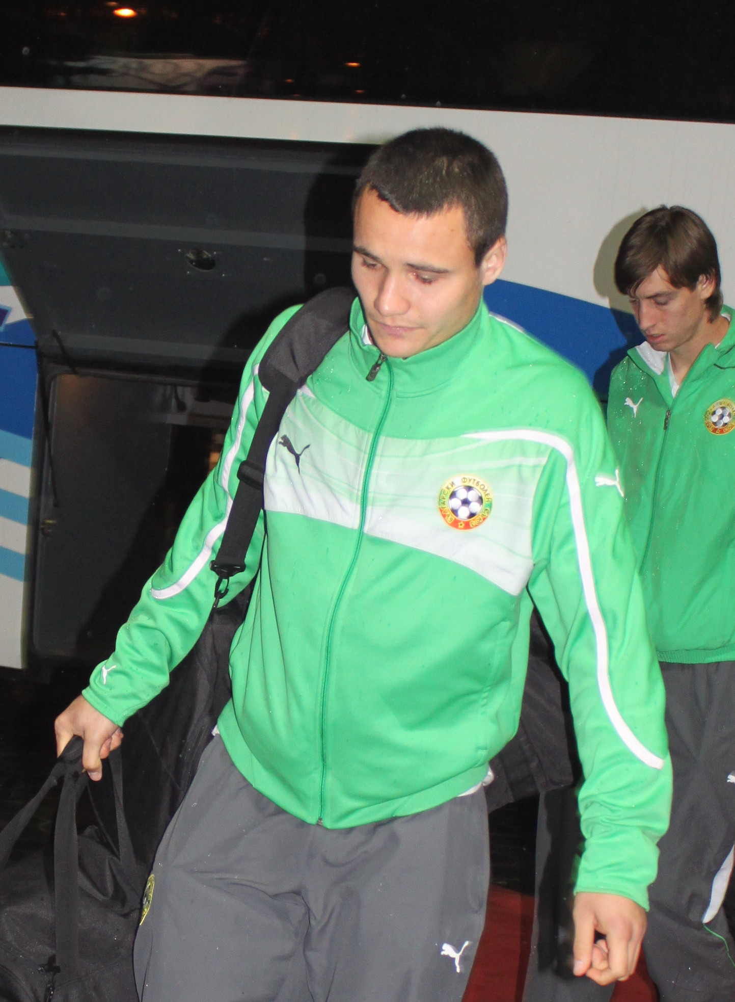 Viktor Genev - bulgarian football player, national